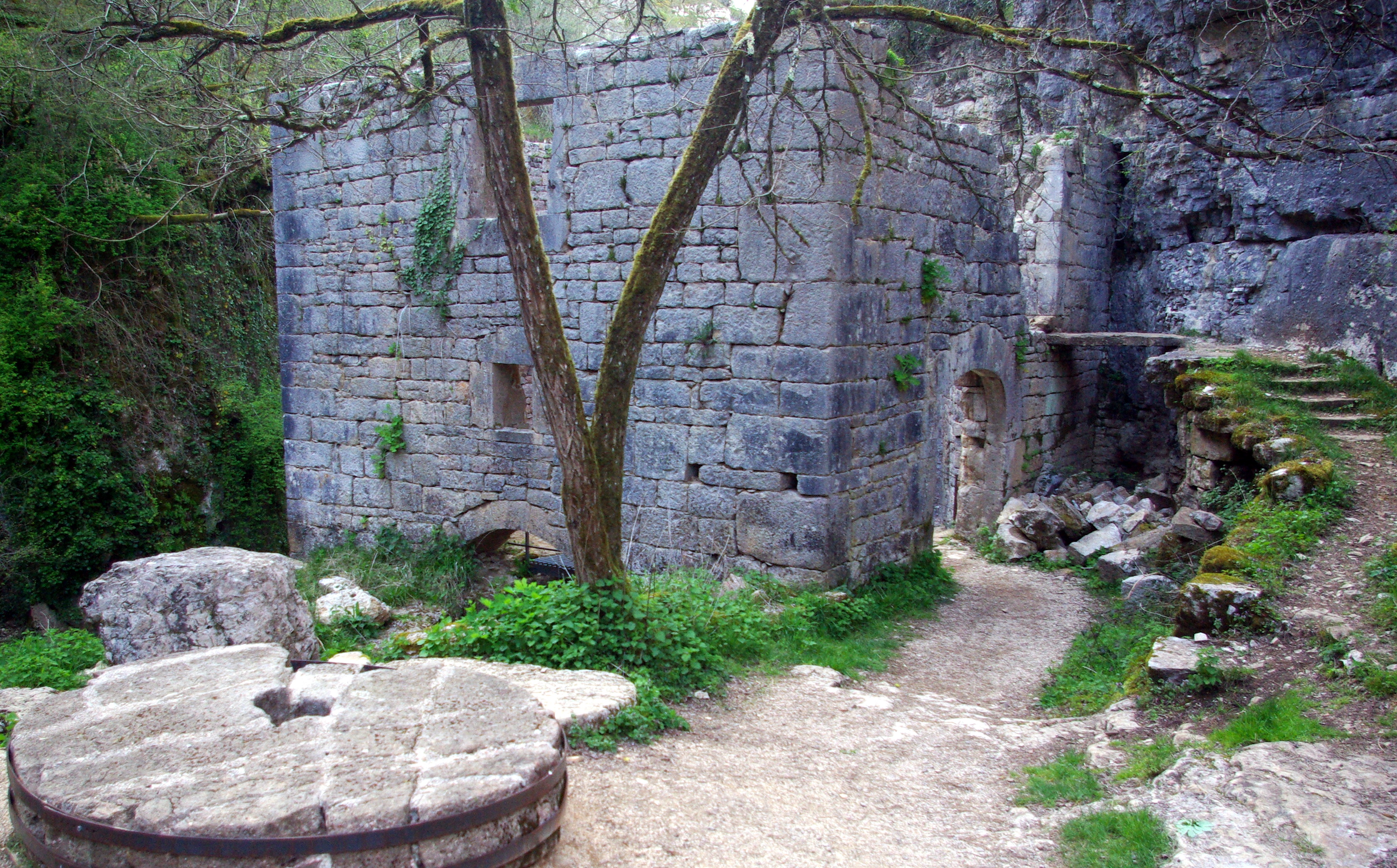 The moulin du Saut, a ruined water mill on the Alzou river, near Gramat in southwest France.